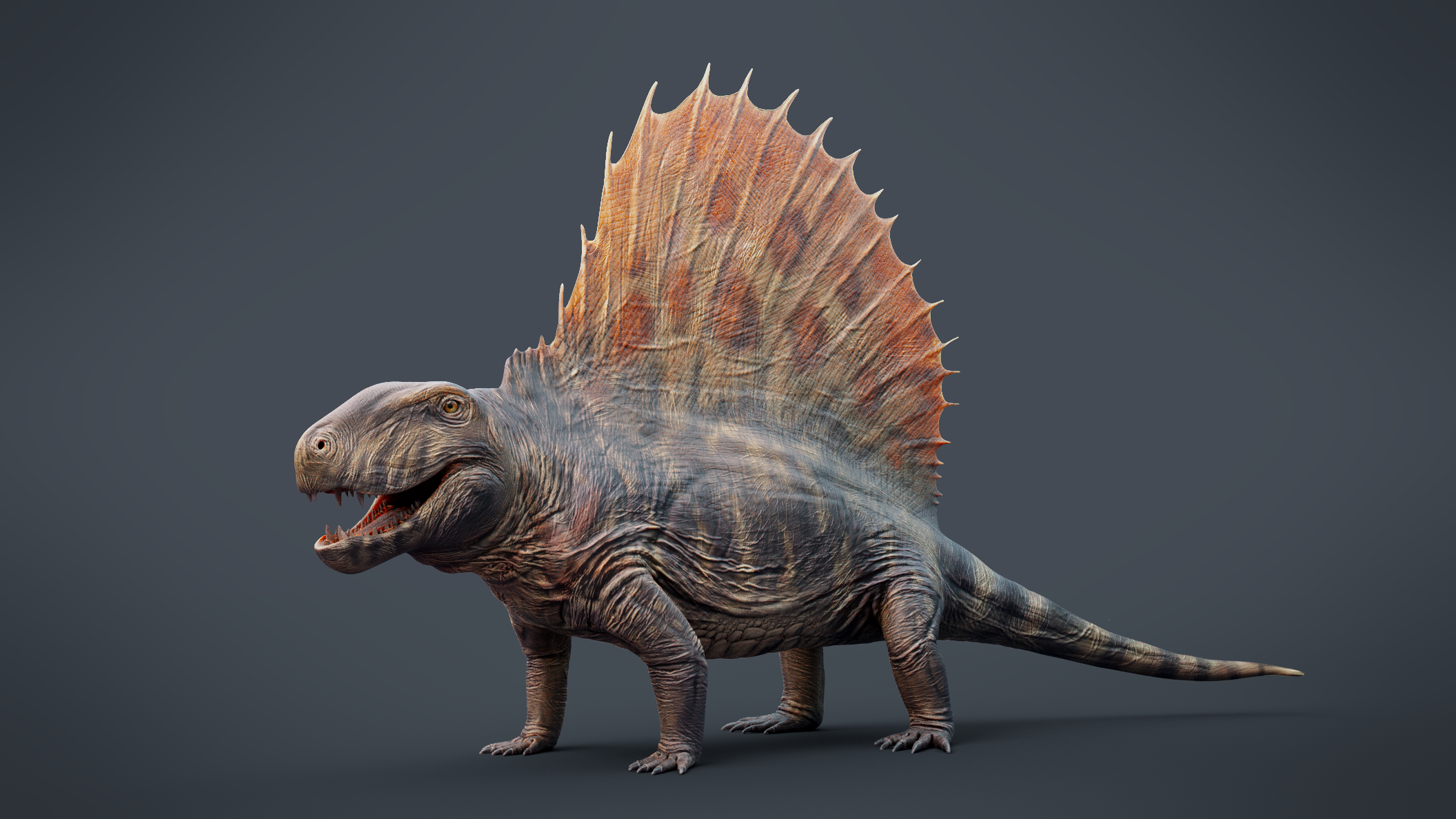 A modern reconstruction of Dimetrodon Grandis. The integument is based on evidence from Dimetropus and Estemmenosuchus showing it may have had scaleless skin with rectangular scutes on the underside of the belly. The upright posture is also based on the Dimetropus trackways, which shows Dimetrodon and closely related synapsids may have stood with its legs underneath the body rather than sprawling.